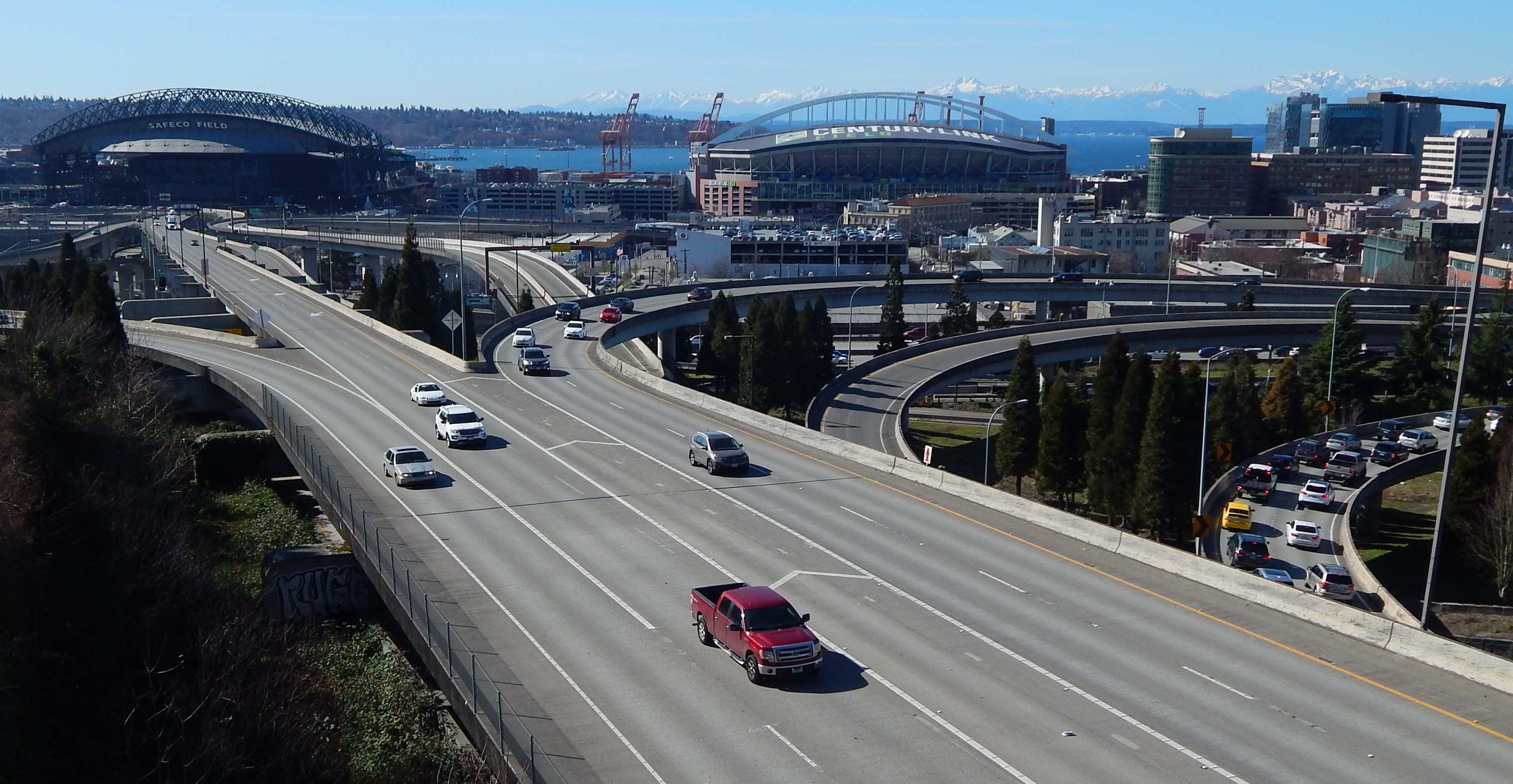 Safeco Field and CenturyLink Field in Seattle, WA with the start of Interstate 90 eastbound